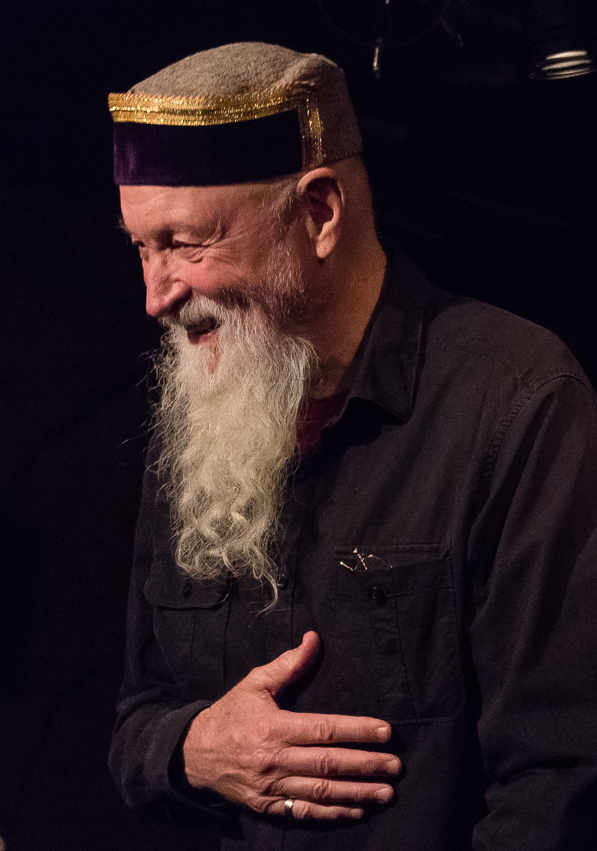 Terry Riley in Tokyo, 2017